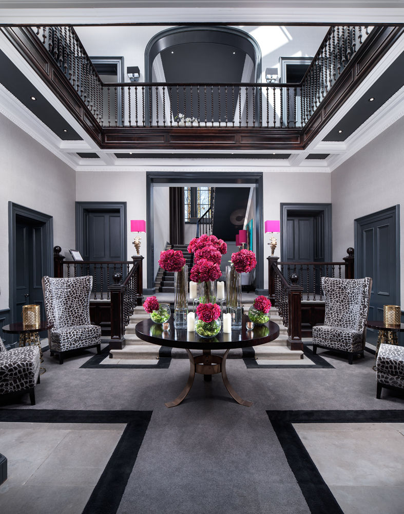 Carlowrie Castle near Kirkliston in Edinburgh, a luxury exclusive use castle.